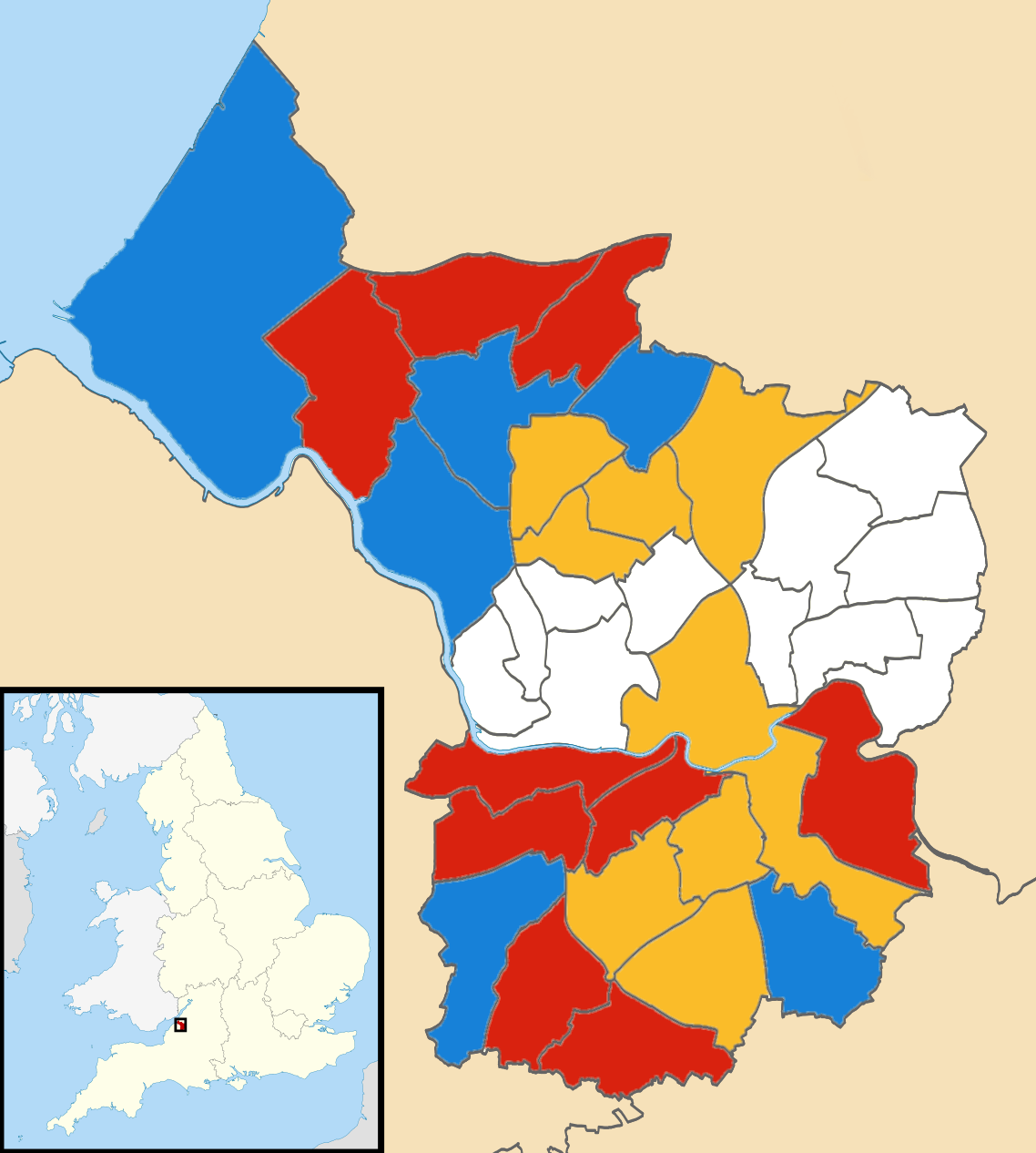 Results of the 2002 local elections in Bristol Colours: Conservative Labour Liberal Democrat No election in 2002